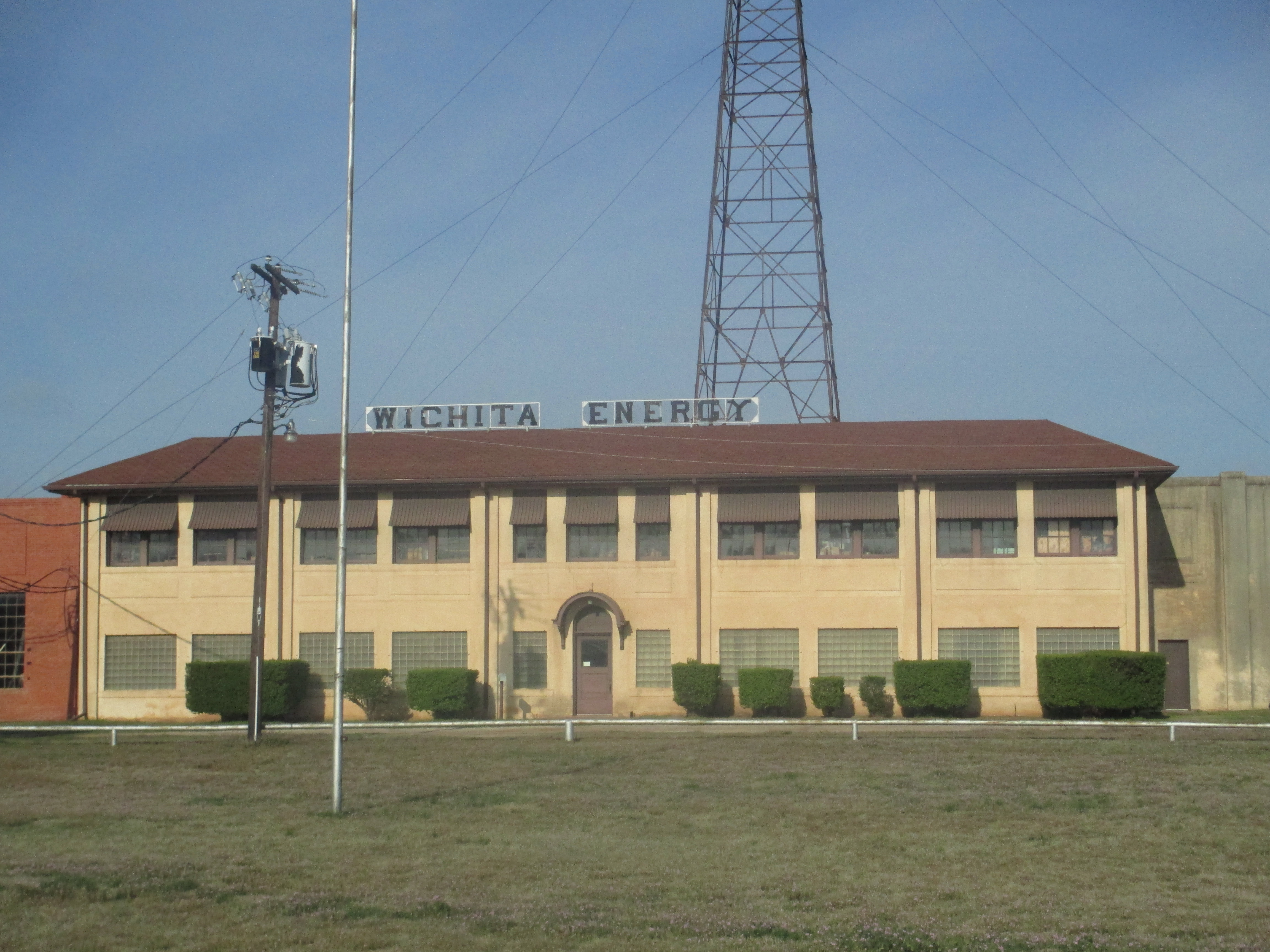 Photo taken on April 7, 2013, with Canon camera on Arthur Street in Wichita Falls, TX, of former Wichita Falls Motor Co., now Wichita Energy.